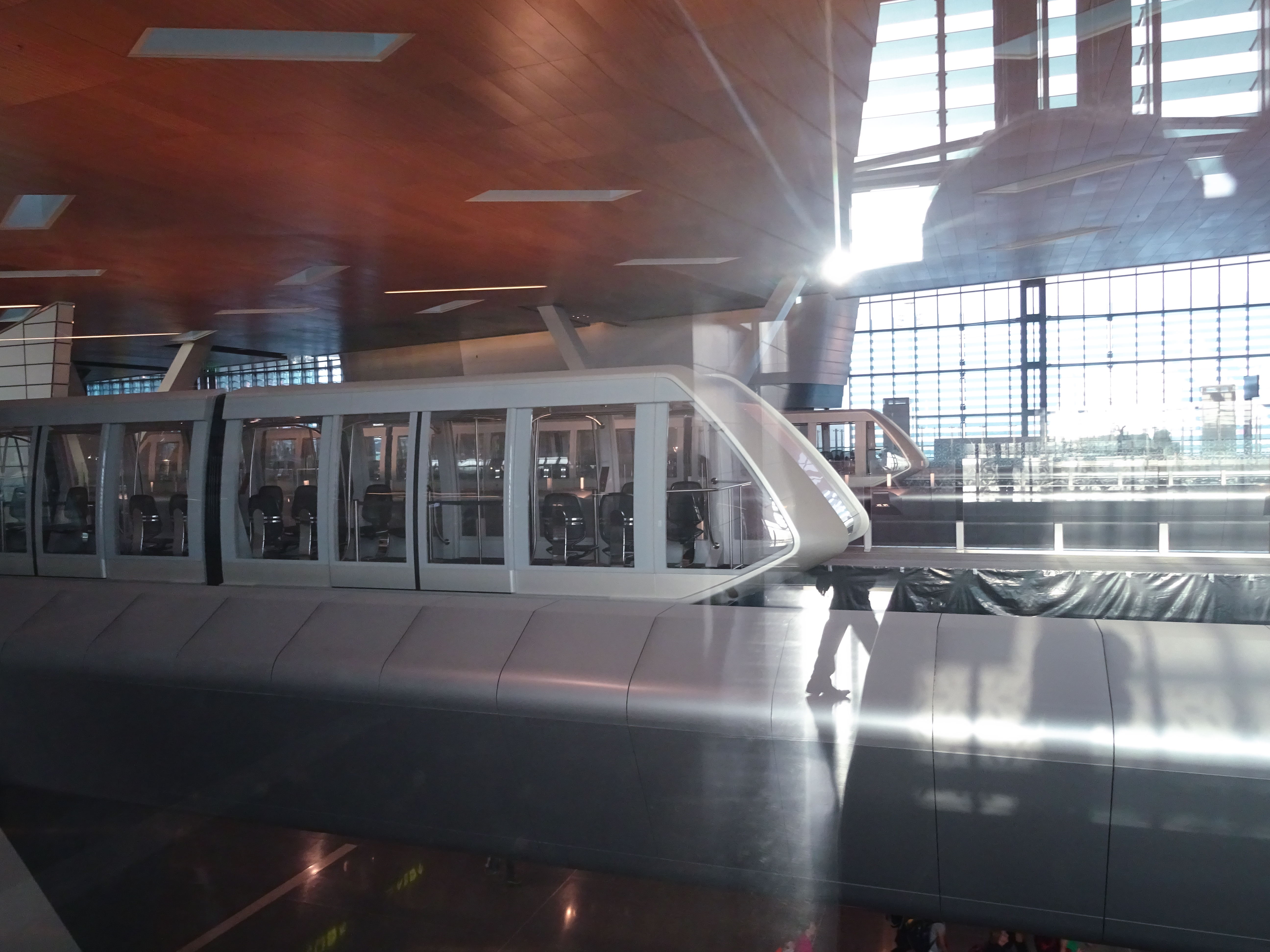 Monorail inside Hamad International Airport, Doha, Qatar.